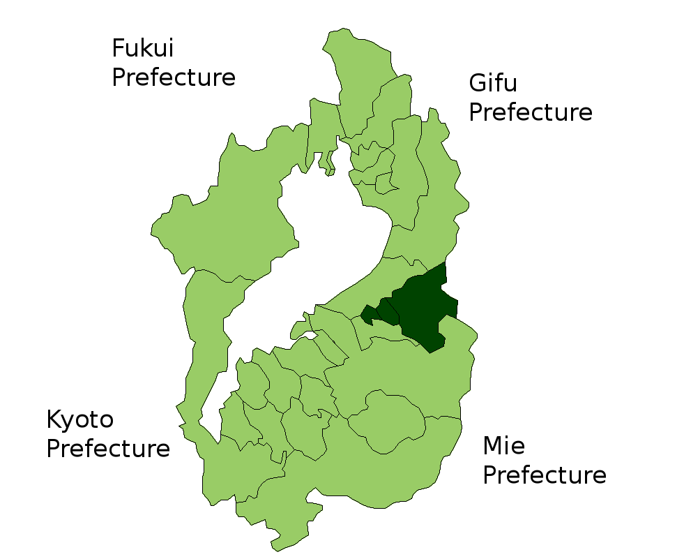 Location Map of Inukami District in Shiga Prefecture, Japan